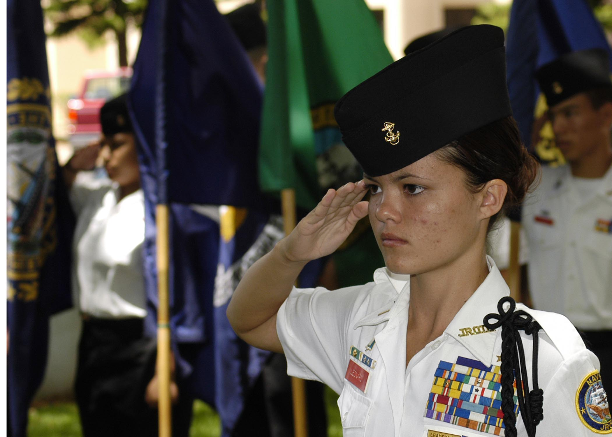 Pearl Harbor, Hawaii (Jun. 1, 2004) - Battalion Commander Cadet Ensign Melanie Leonard, of Radford High School Junior ROTC, salutes during the parading of the colors ceremony held at the Parchee Memorial Submarine Base at this year's Memorial Day Ceremony. U.S. Navy photo by Photographer's Mate 3rd Class Victoria A. Tullock (RELEASED)